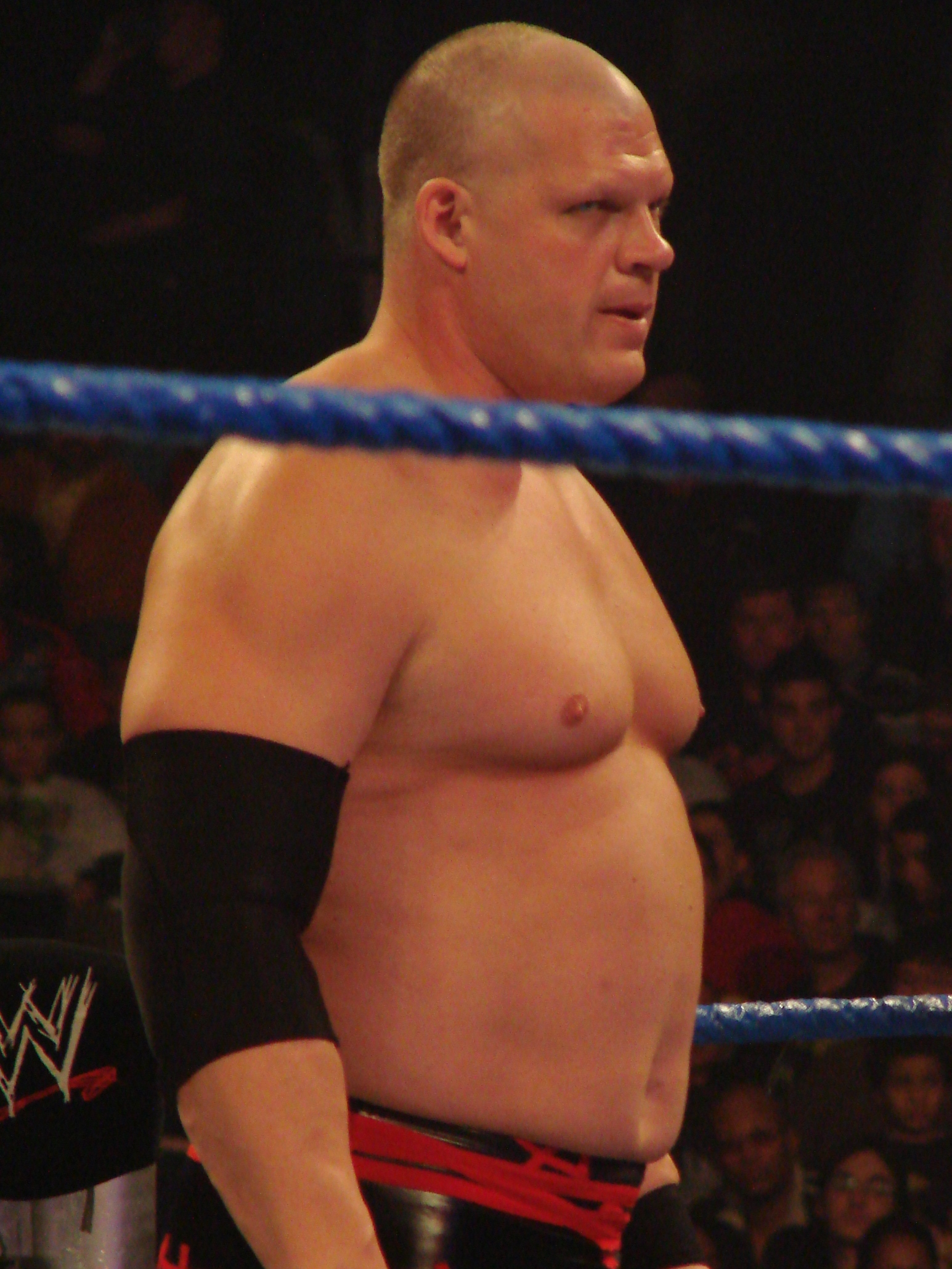 Kane at WWE SmackDown. Allstate Arena, Rosemont IL. Taken by myself, rotated and cropped.